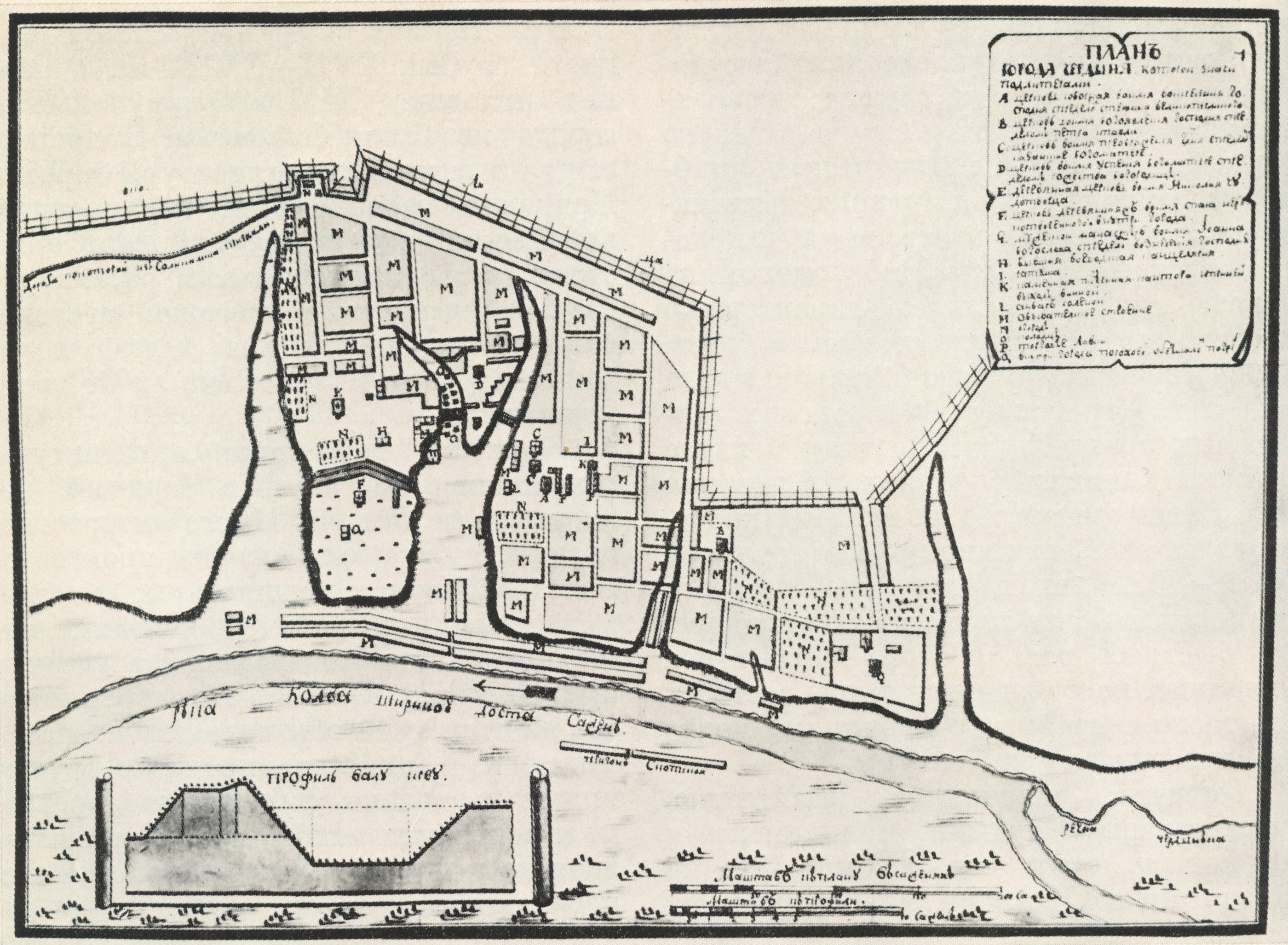 Plan of Cherdyn, 1770